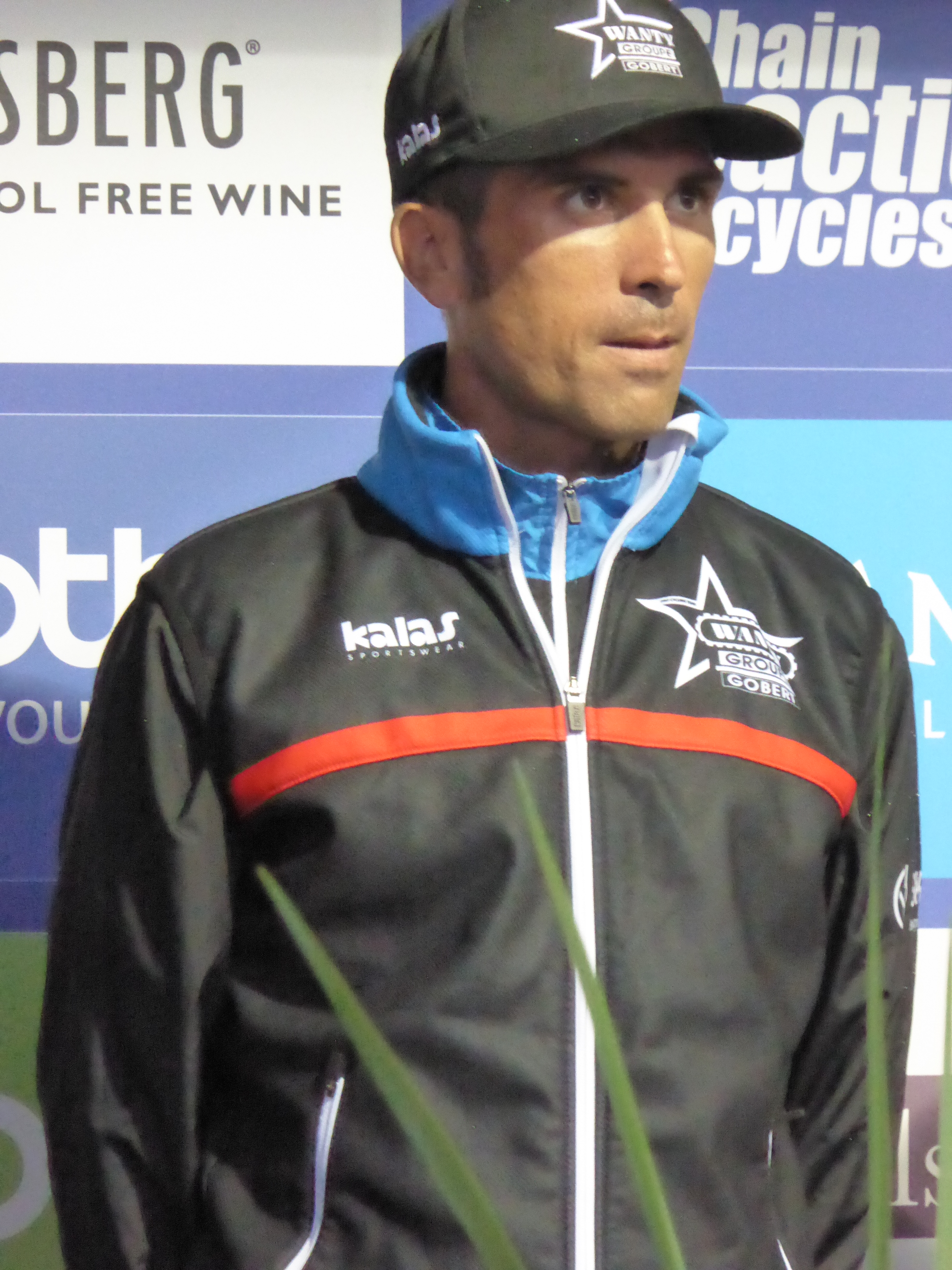 Marco Marcato (Wanty-Groupe Gobert), pictured at the 2016 Tour of Britain team presentation in Glasgow on 3 September 2016.